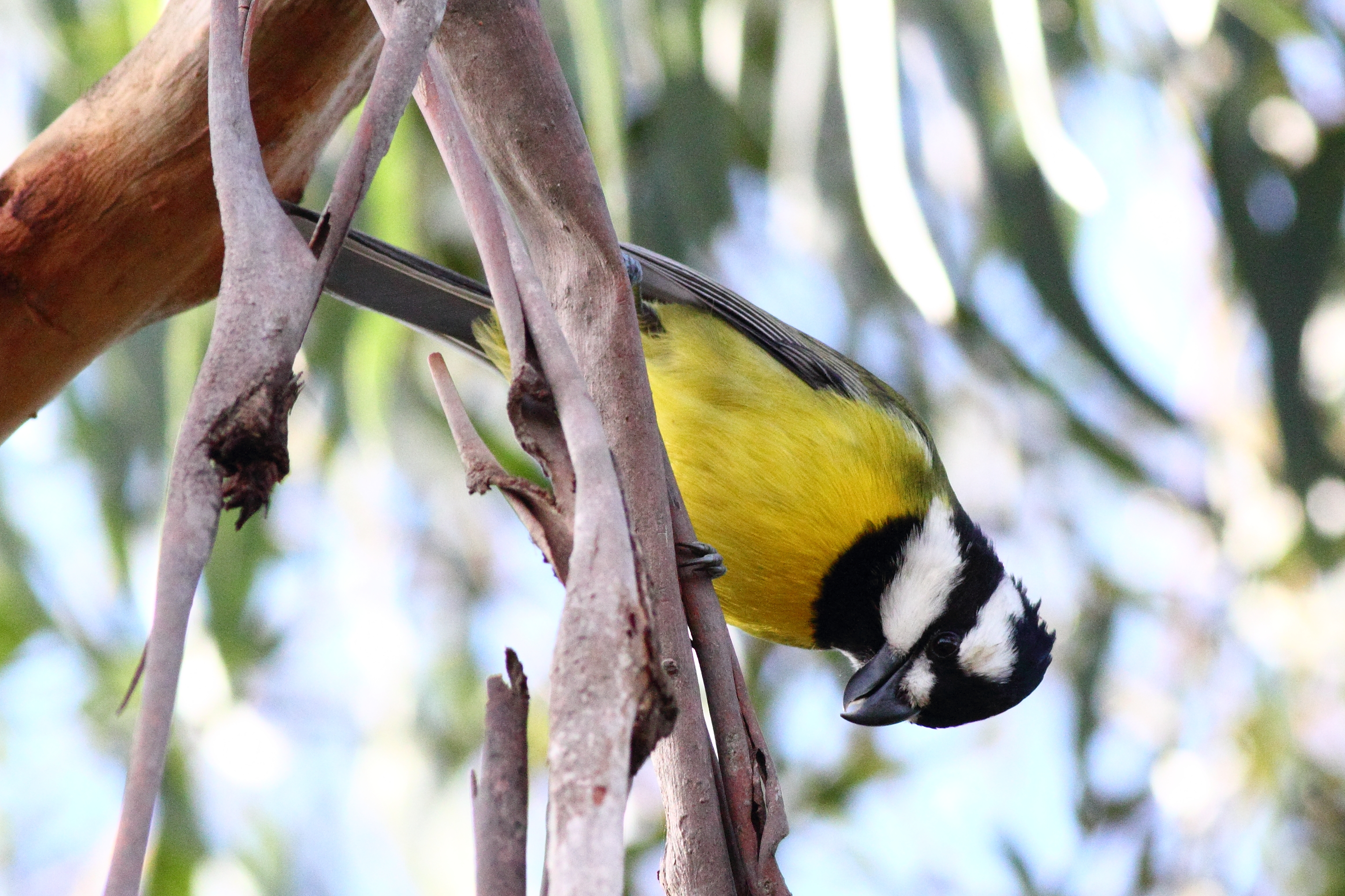 A male Crested Shriketit at Royal Botanic Gardens, Cranbourne, Australia.